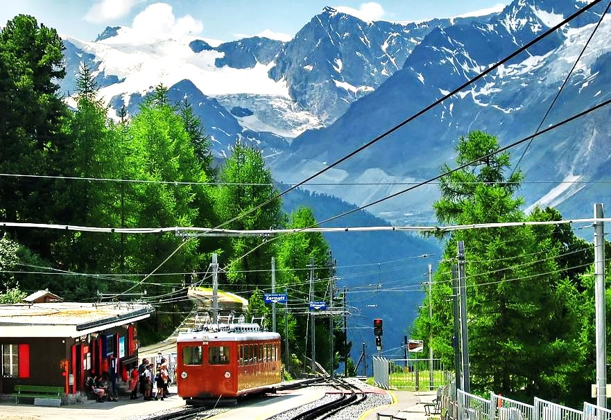 Riffelalp train station (2200 m), near Zermatt